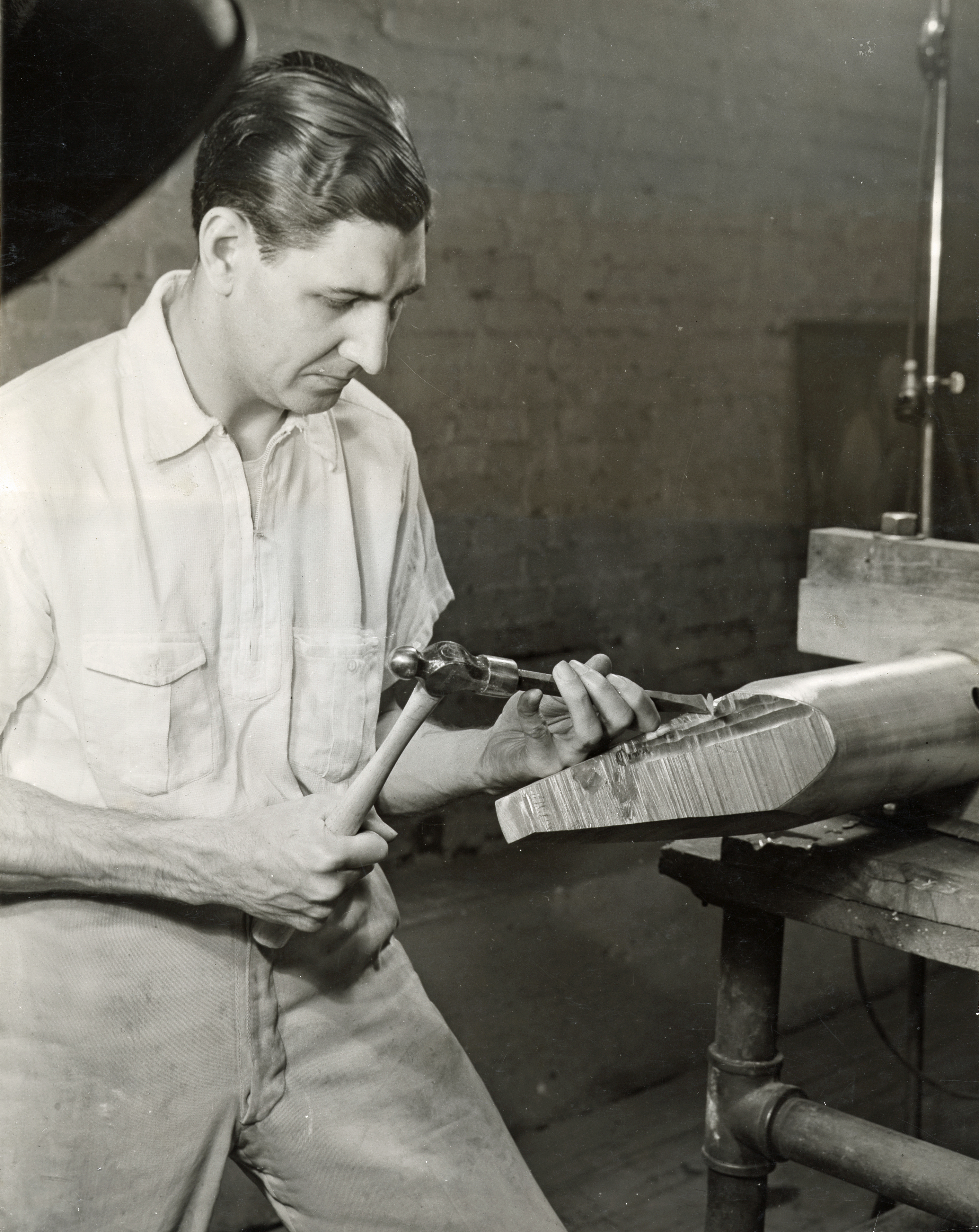 Photograph of Jose De Rivera taken for the Works Progress Administration. Identification on verso, left(handwritten and stamped): Title: "Flight"; Artist: Jose Ruiz de Rivera